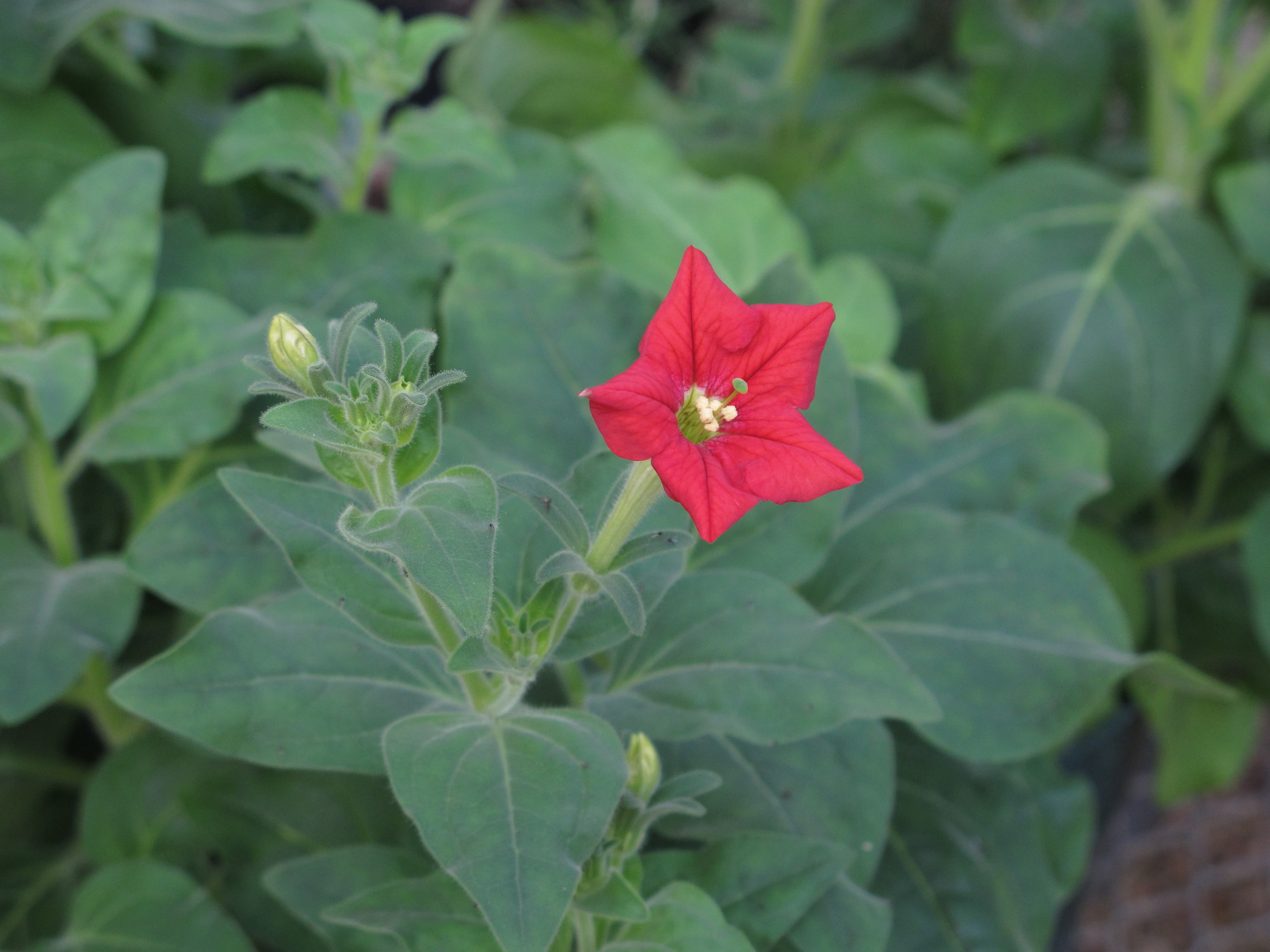 cultivated from seeds sent to me by Joseph at Biological Sciences greenhouse, Florida International University, Miami, Florida, USA.